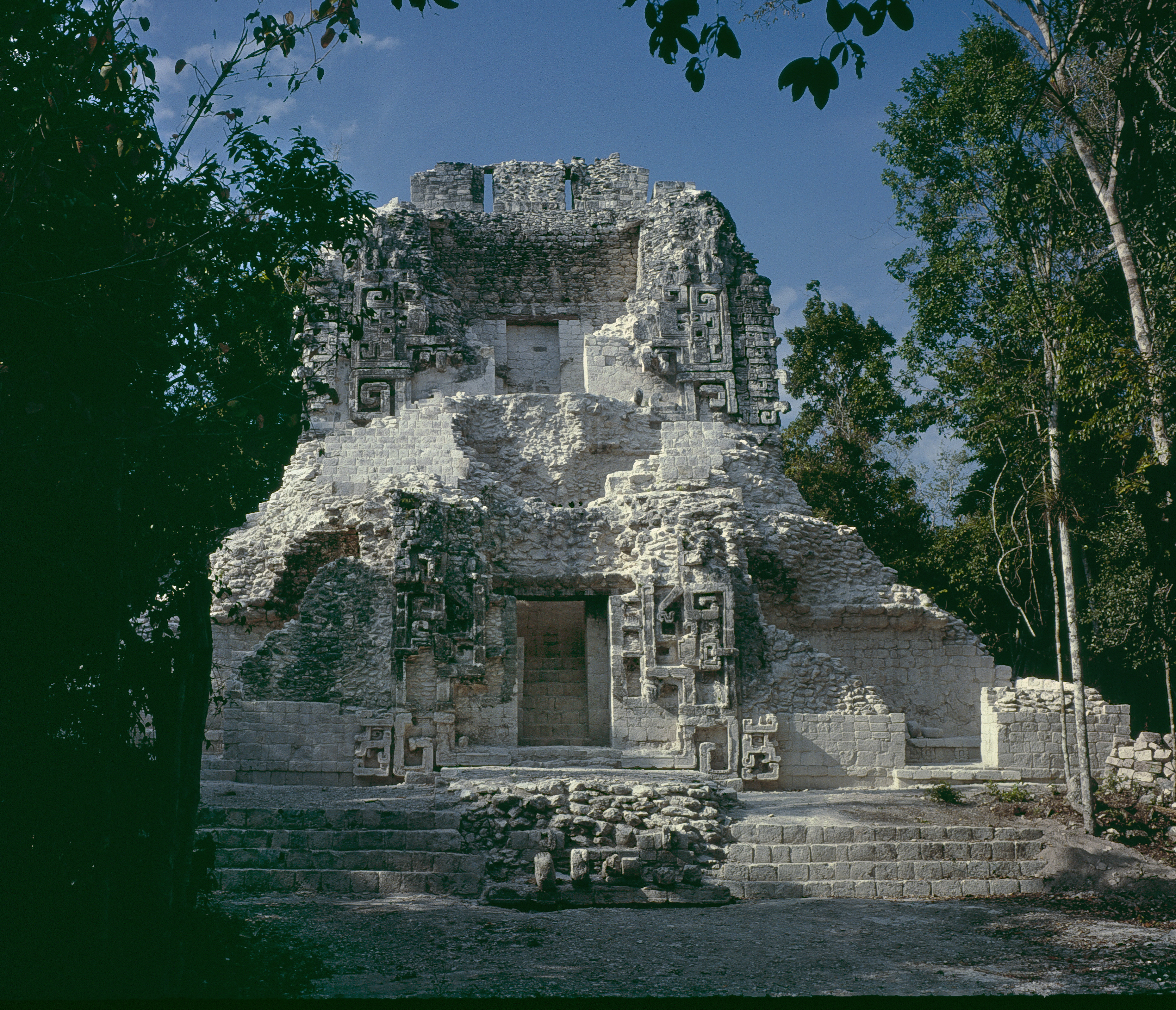 Chicanna, Campeche, Mexico: Structure XX